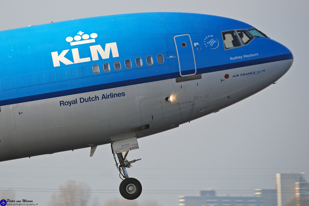 McDonnell Douglas MD-11 Amsterdam schiphol [AMS / EHAM] 02-01-2009